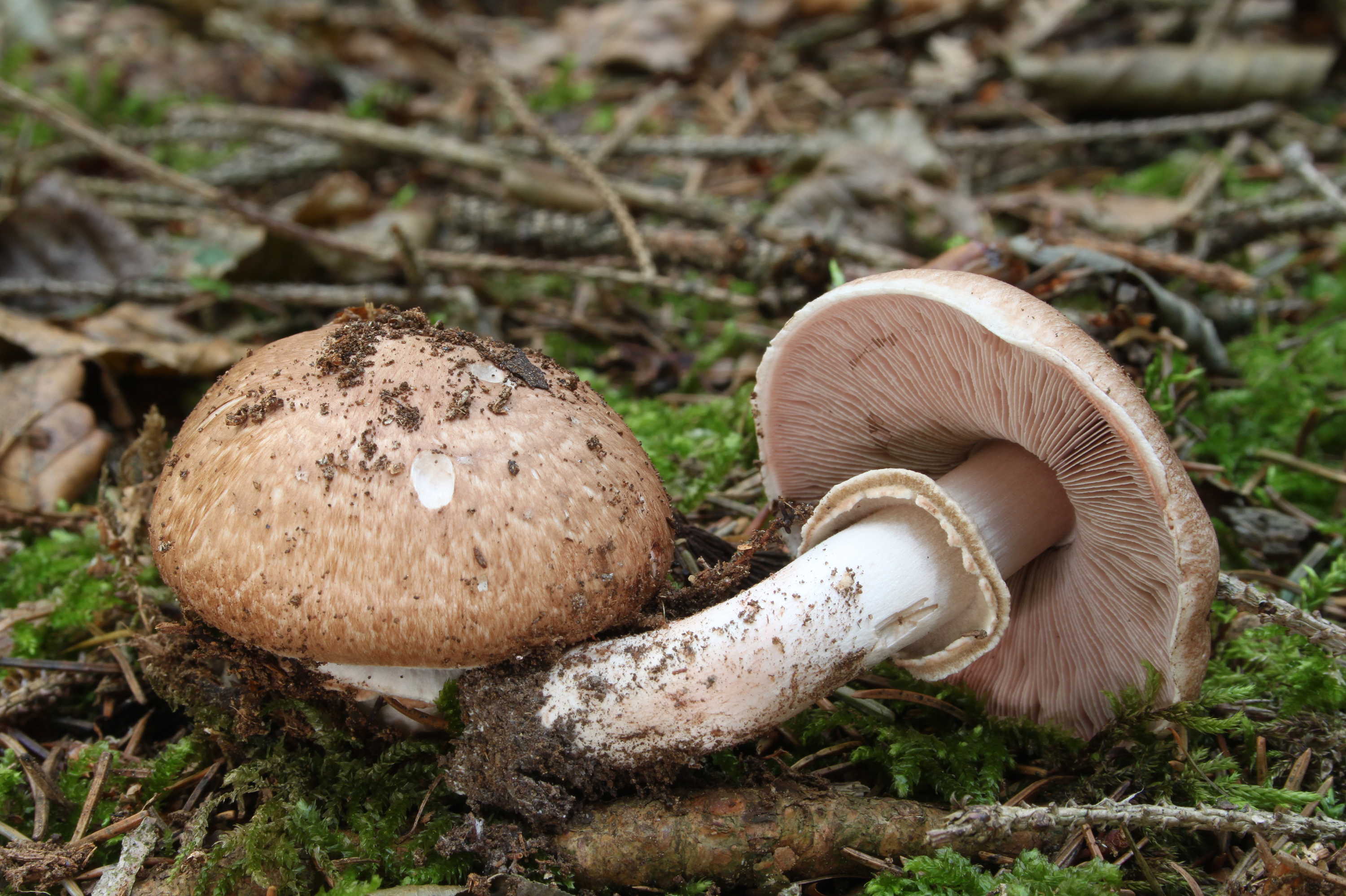 Scaly Wood Mushroom or Blushing Wood Mushroom, Agaricus silvaticus, Family: Agaricaceae, Location: Germany, Erbach, Ringingen